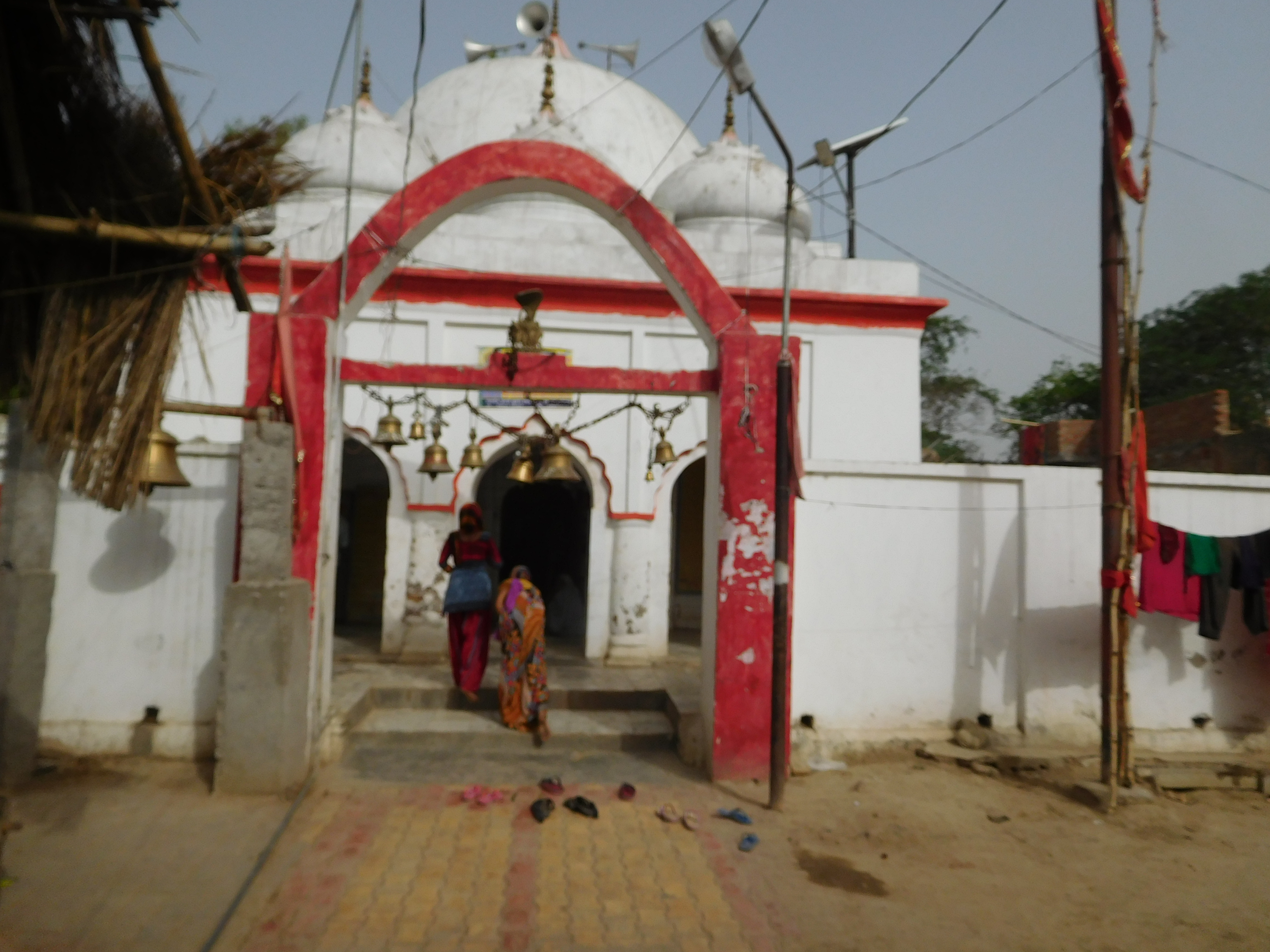 Waneshwar Mahadev Mandir (Front view),Kanpur Dehat, Uttar Pradesh,India